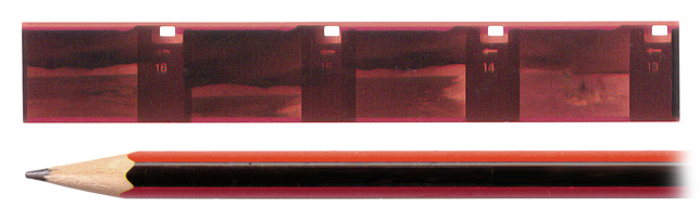 110 (pocket camera) film negative strip with pencil for scale. Negative strip itself is 111 x 16 mm.